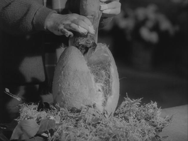 A scene from The Little Shop of Horrors.